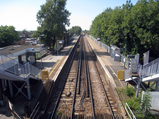 Teynham railway station Original description: Teynham Railway Station Looking towards Sittingbourne direction.